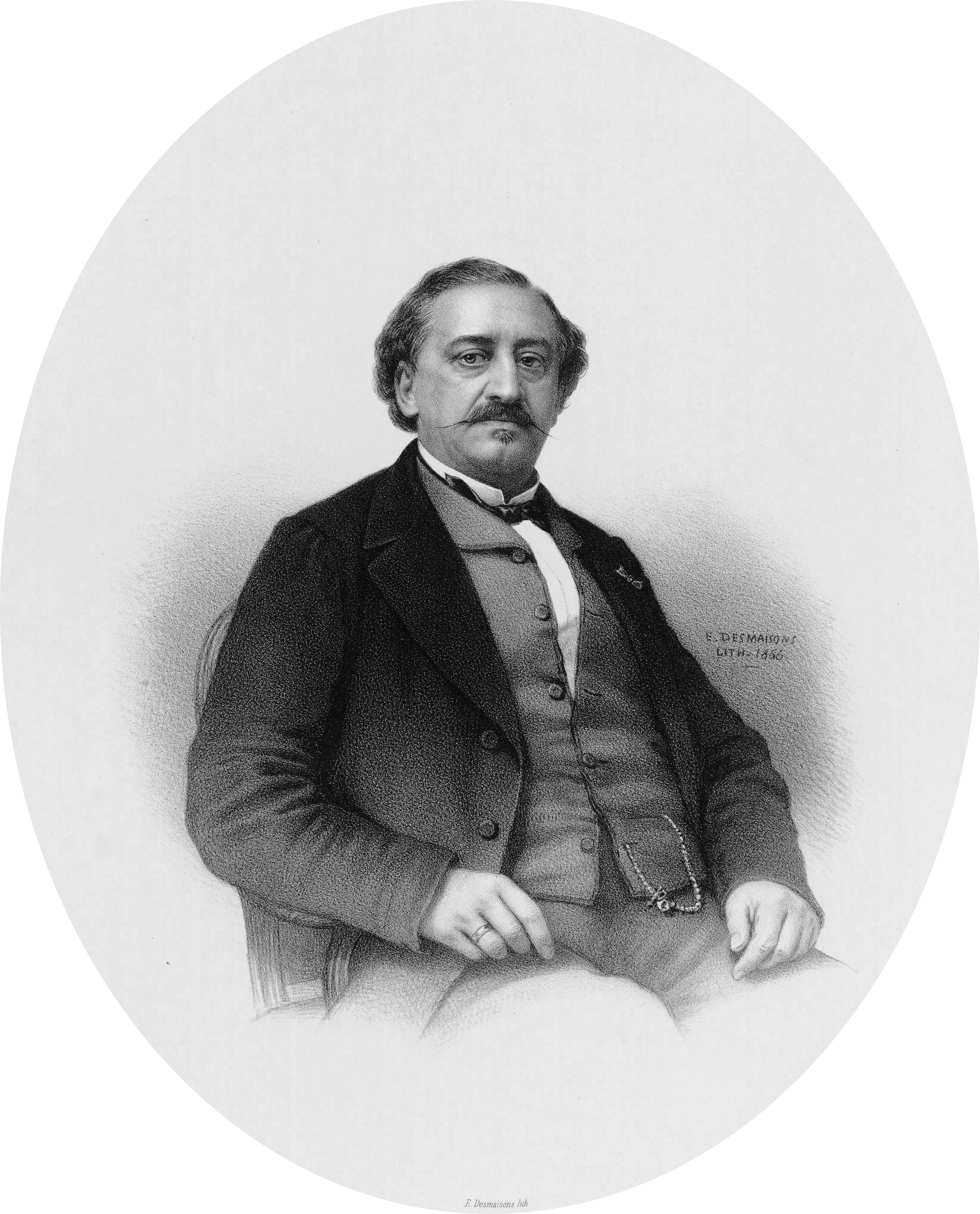 Depicted person: Friedrich von Flotow